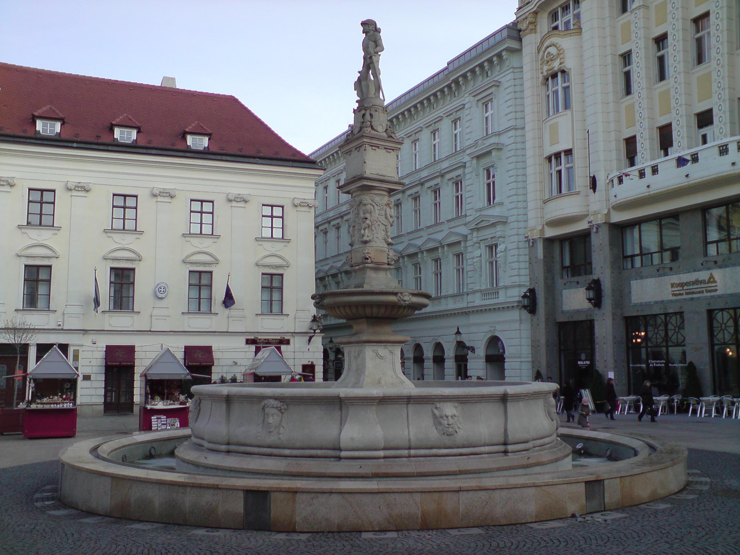 Roland fountain on the Main square in Bratislava, Slovakia